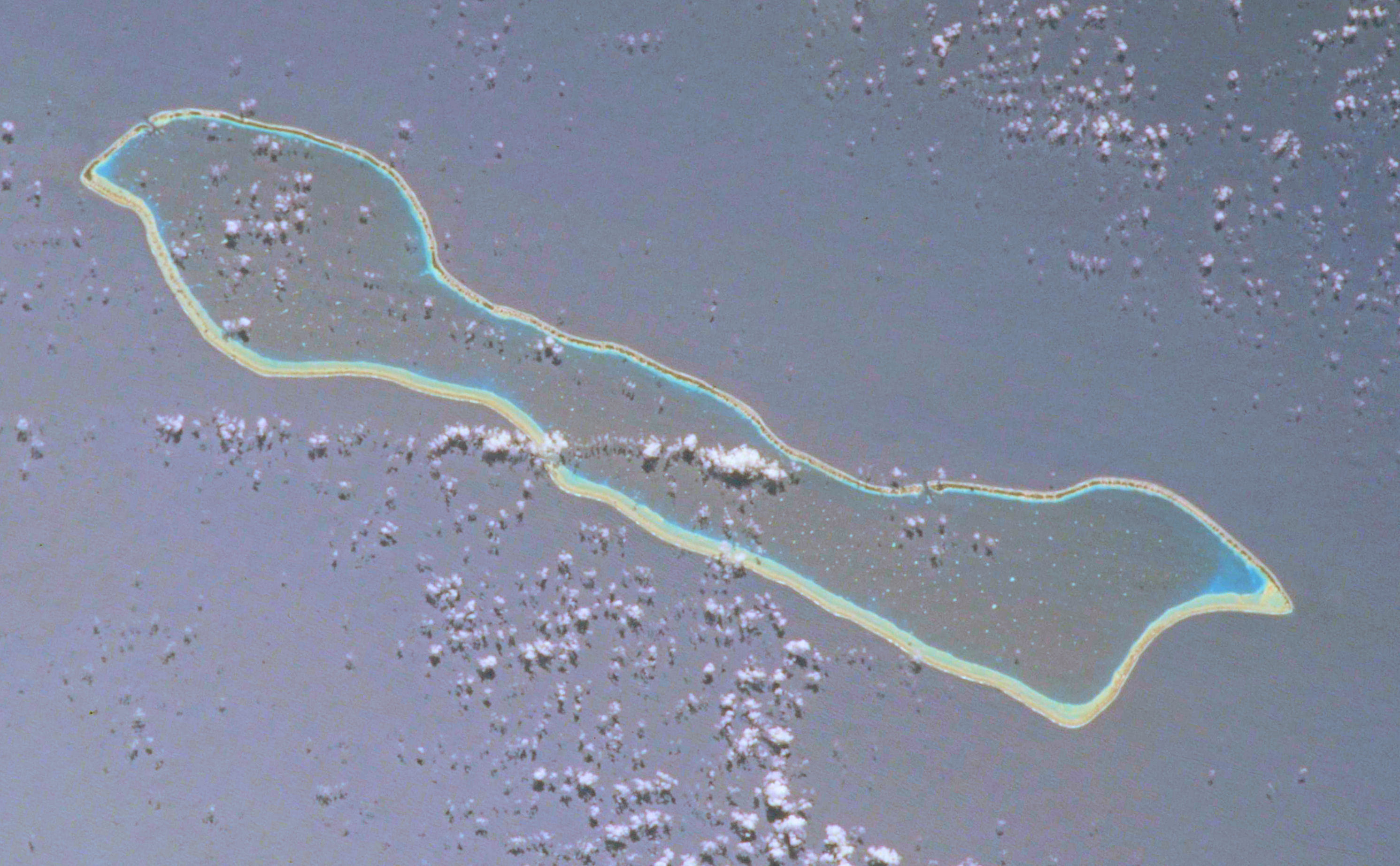 Atoll Makemo (Tuamotu Archipelago, French Polynesia), from space.